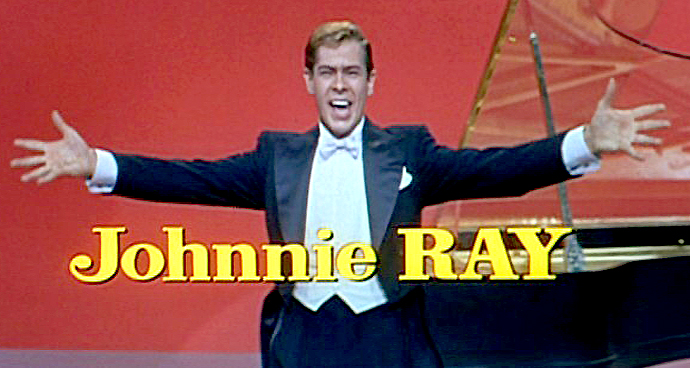 Cropped screenshot of Johnnie Ray from the trailer for the film There's No Business Like Show Business.